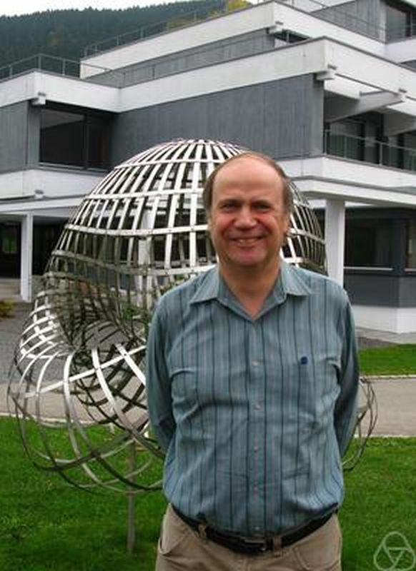 Peter Glynn, Oberwolfach 2010